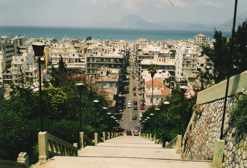 Own work; the long-stairway at Patras (Greece) taken in June 2002 by ERWEH